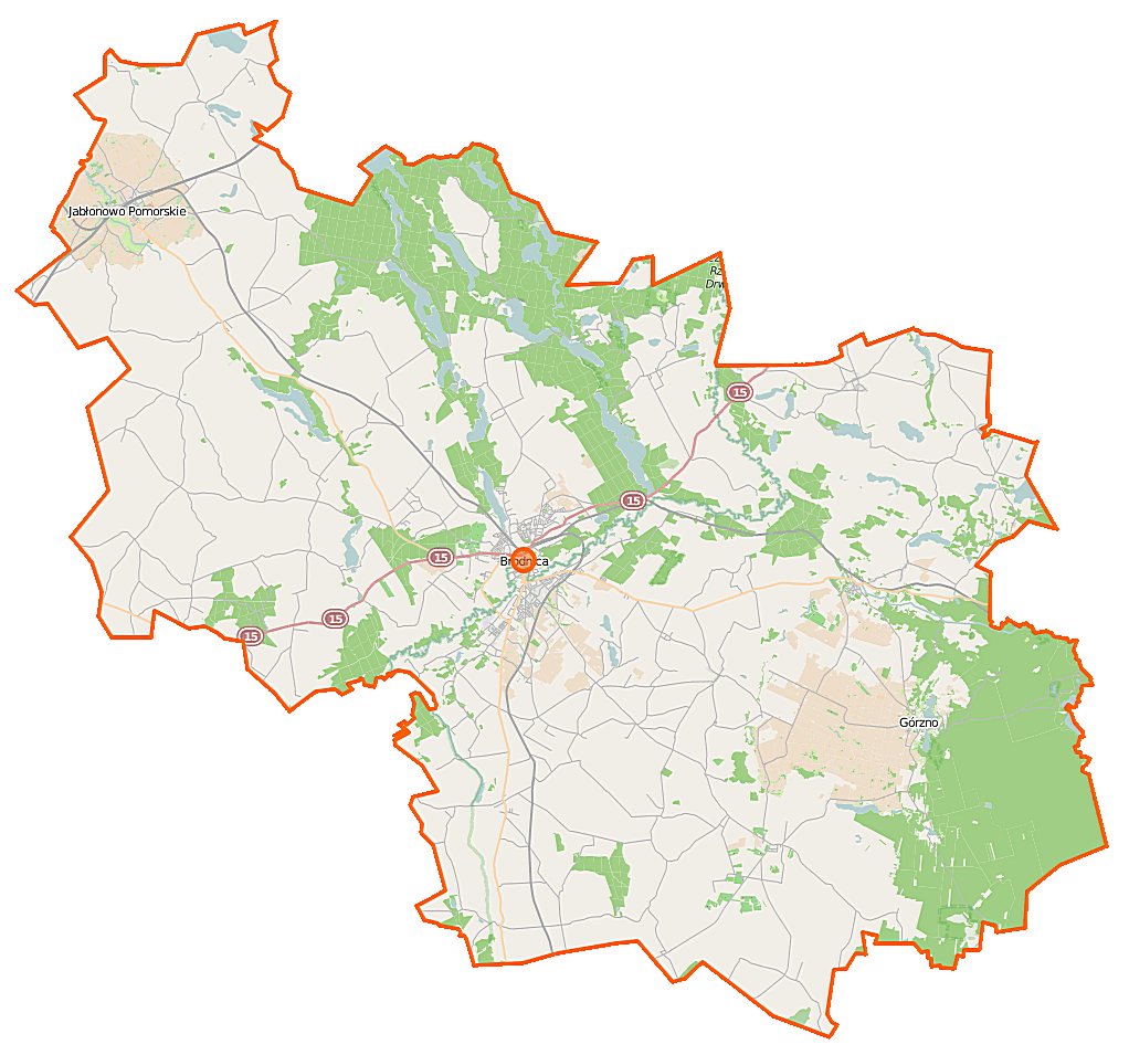 Map of Powiat brodnicki, Poland This map of Powiat brodnicki was created from OpenStreetMap project data, collected by the community. This map may be incomplete, and may contain errors. Don't rely solely on it for navigation. Border coordinates53.466019.0730←↕→19.776153.0738